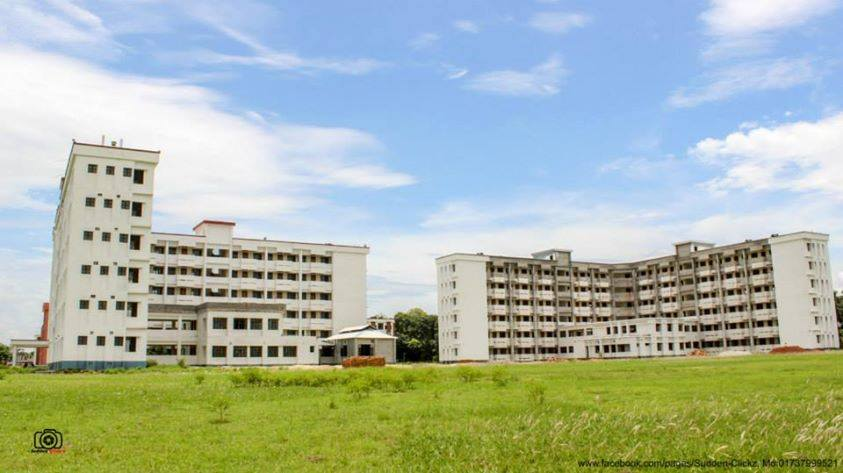 Its A picture of two Academic Building of Begum Rokeya University, Rangpur